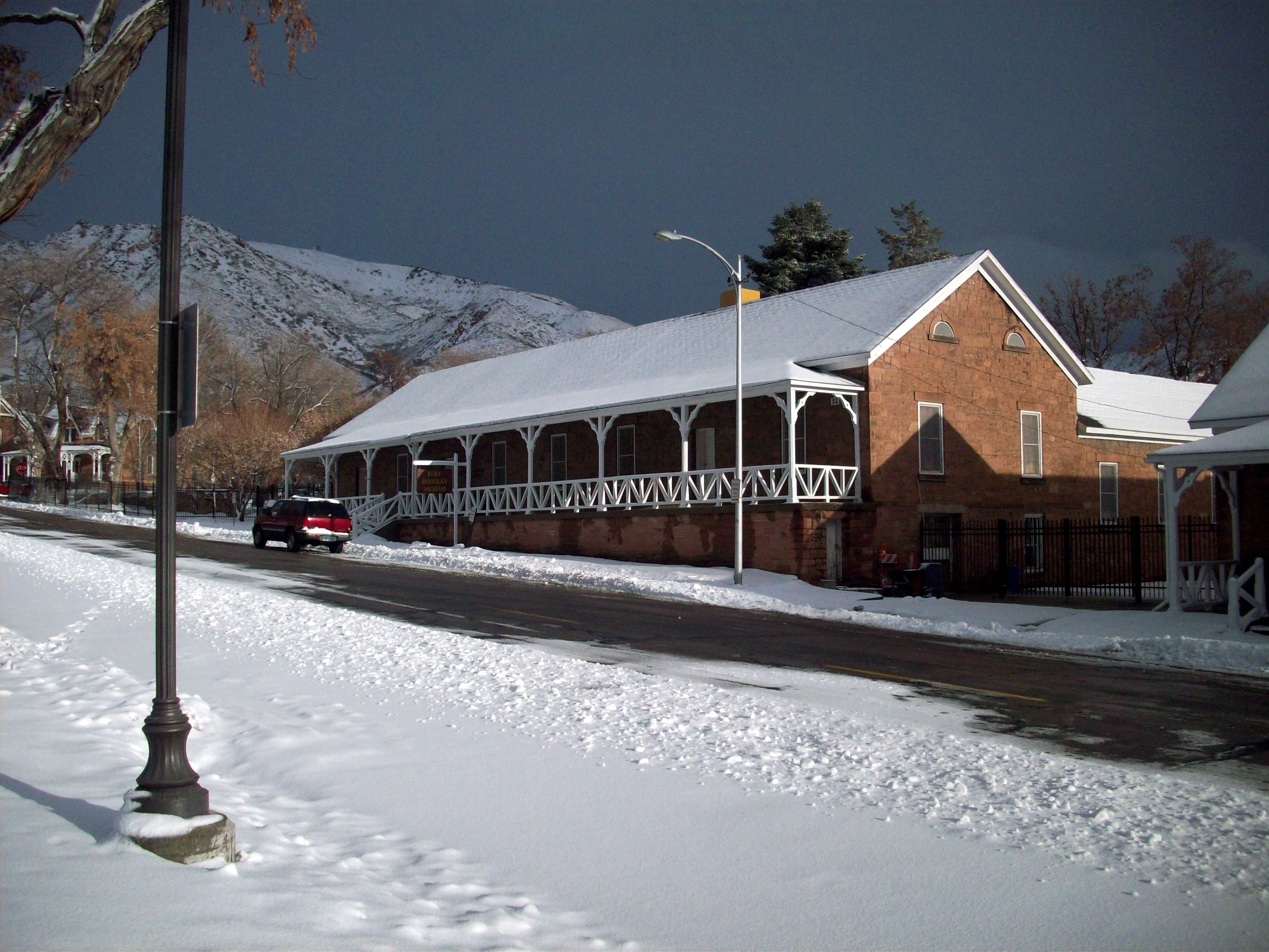 The Museum at Fort Douglas, January 2008. Fort Douglas, Utah